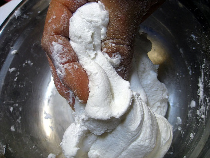 Kneading rice flour dough made with hot water